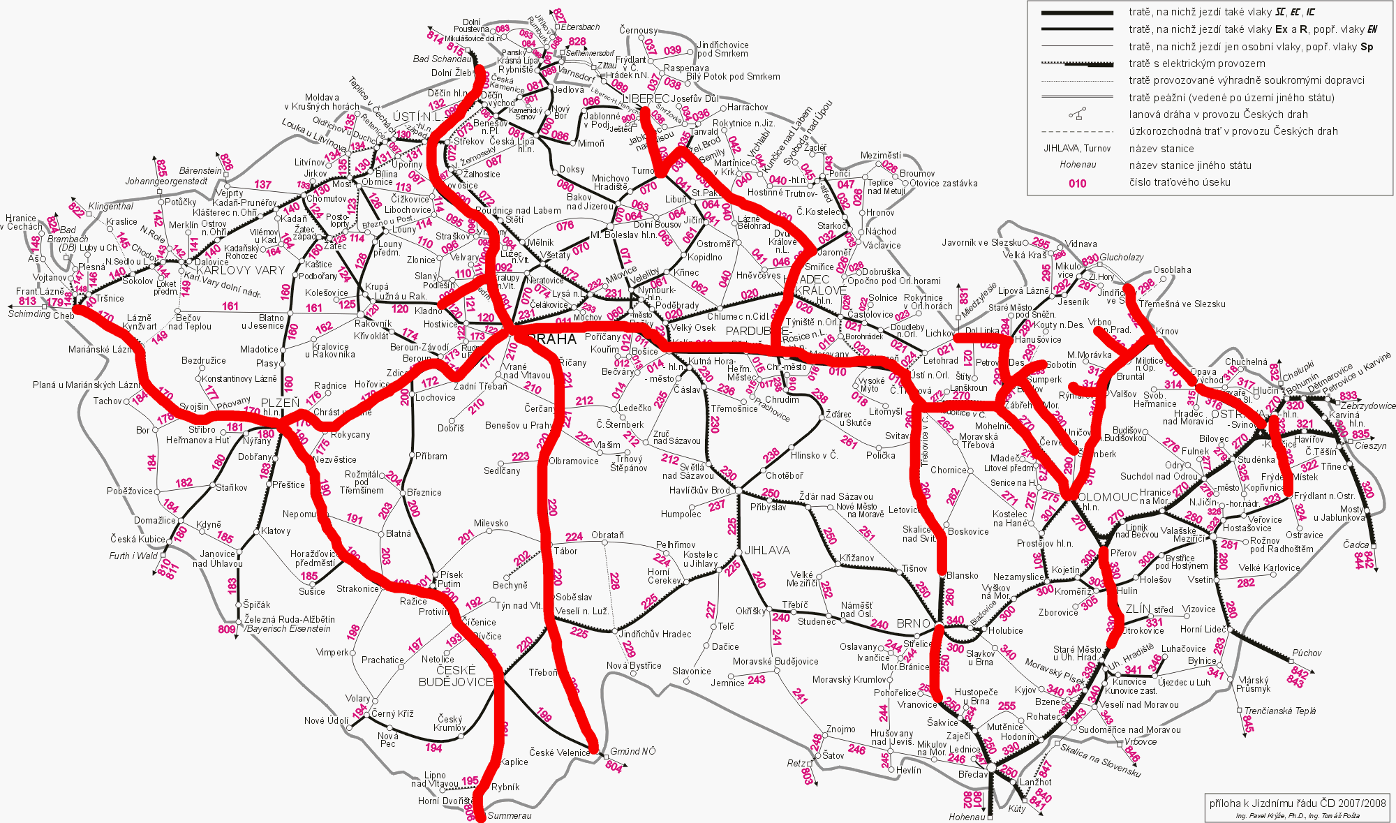 Railway map of the Czech Republic, with highlighted parts (co-) built by Klein family